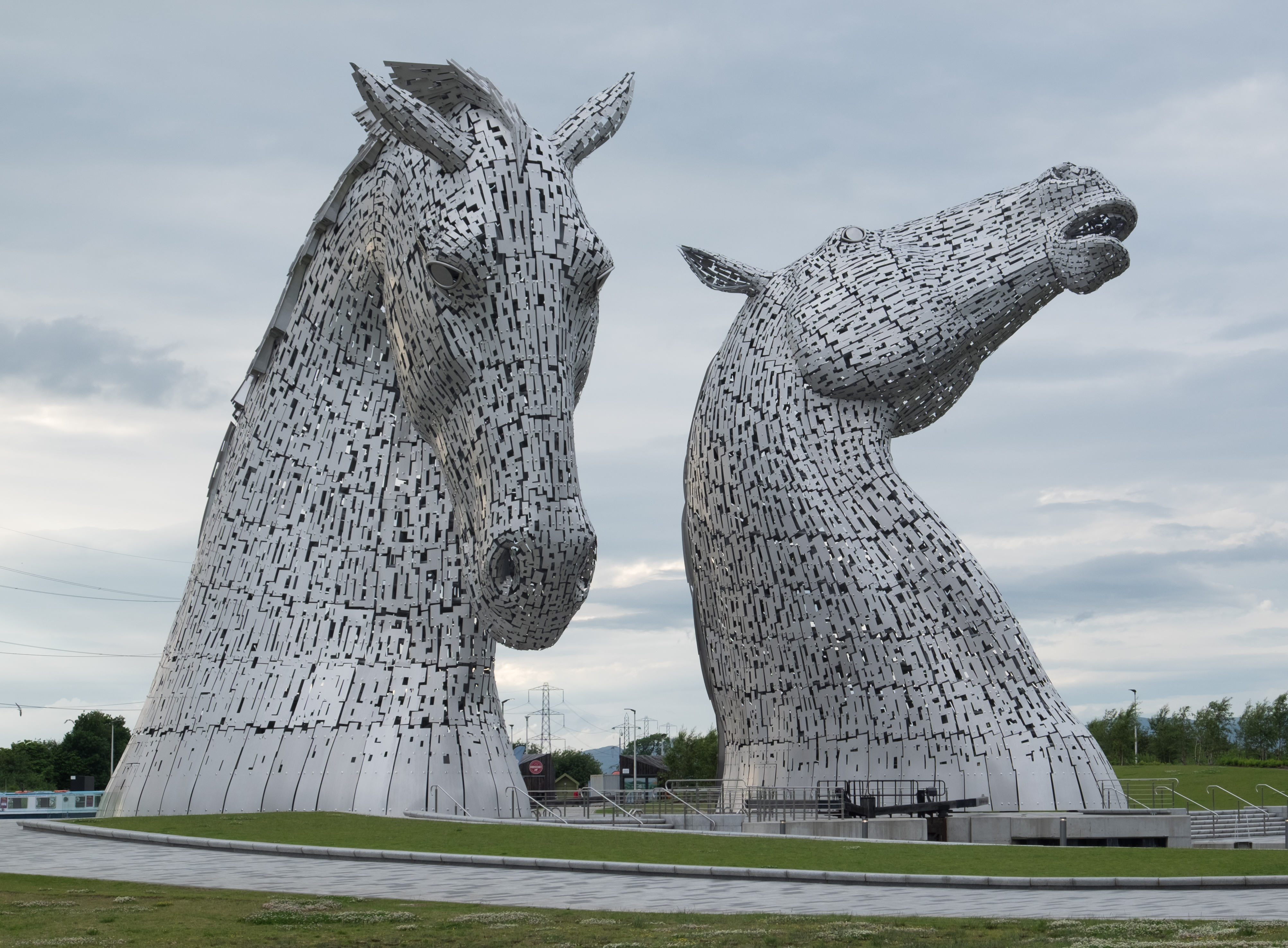 The Kelpies. These 30-metre-high horse-head sculptures are near Falkirk in Scotland